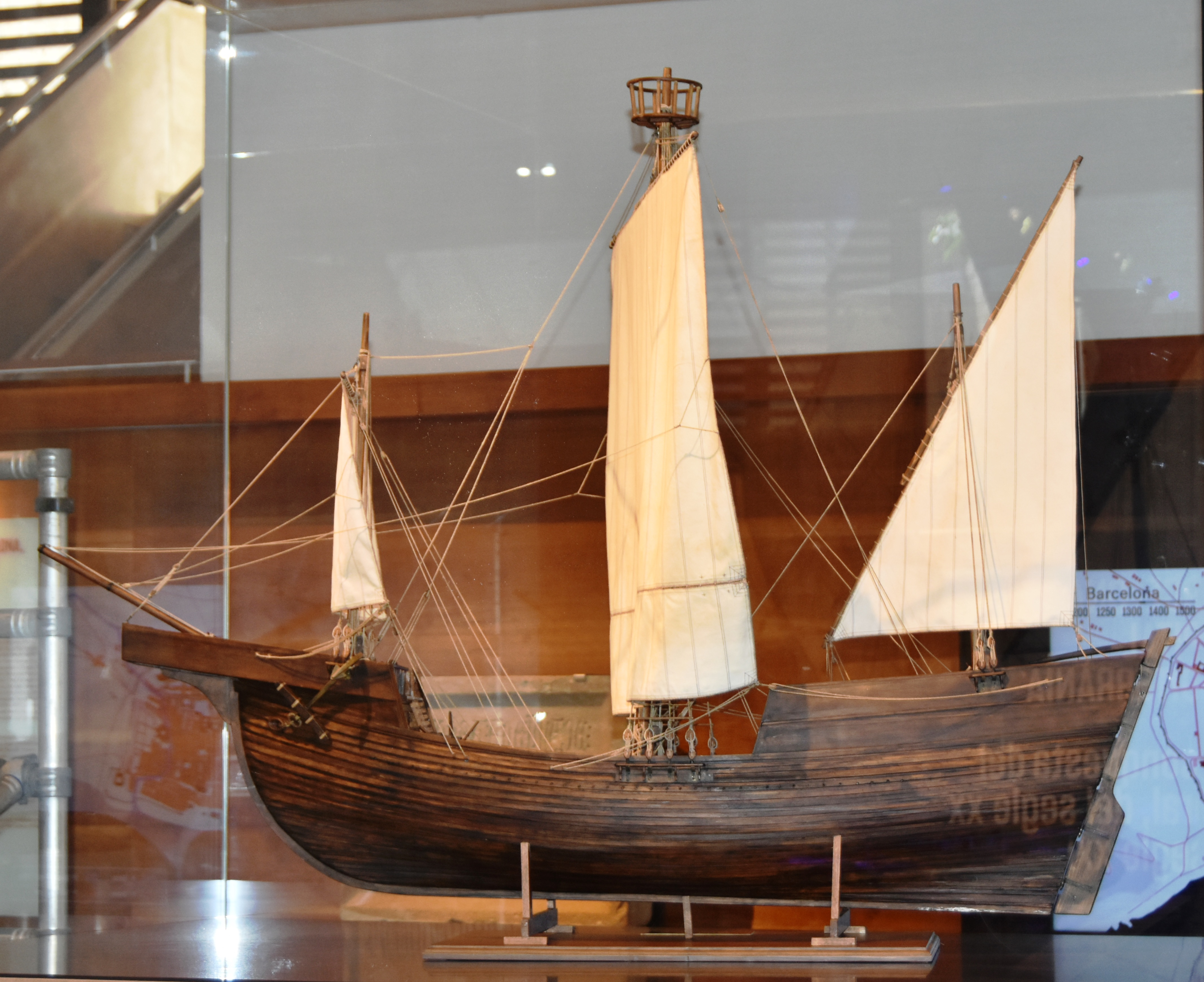 MUHBA Barcelona Model of Barceloneta I, medieval ship, scale 1:20